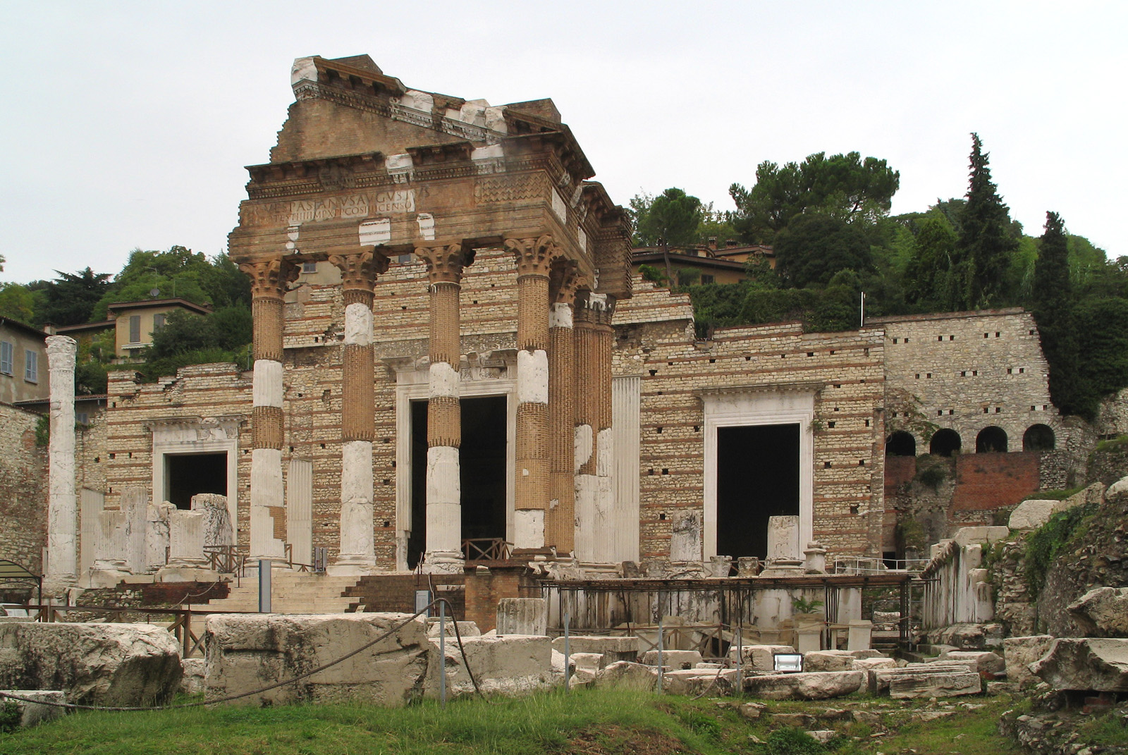 Capitoline Temple, located in the town of Brescia in Lombardy/Italy